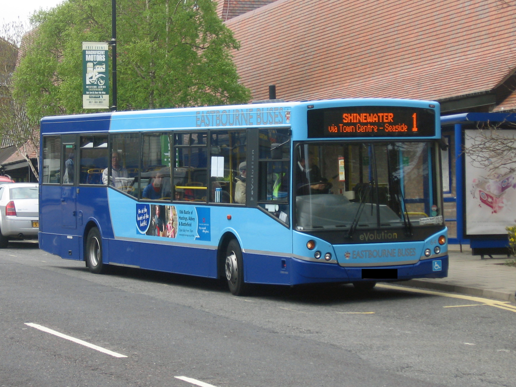 Eastbourne Buses 64 (AE06 XRS), a MAN 14.220/MCV Evolution (built 2006) on route 1.